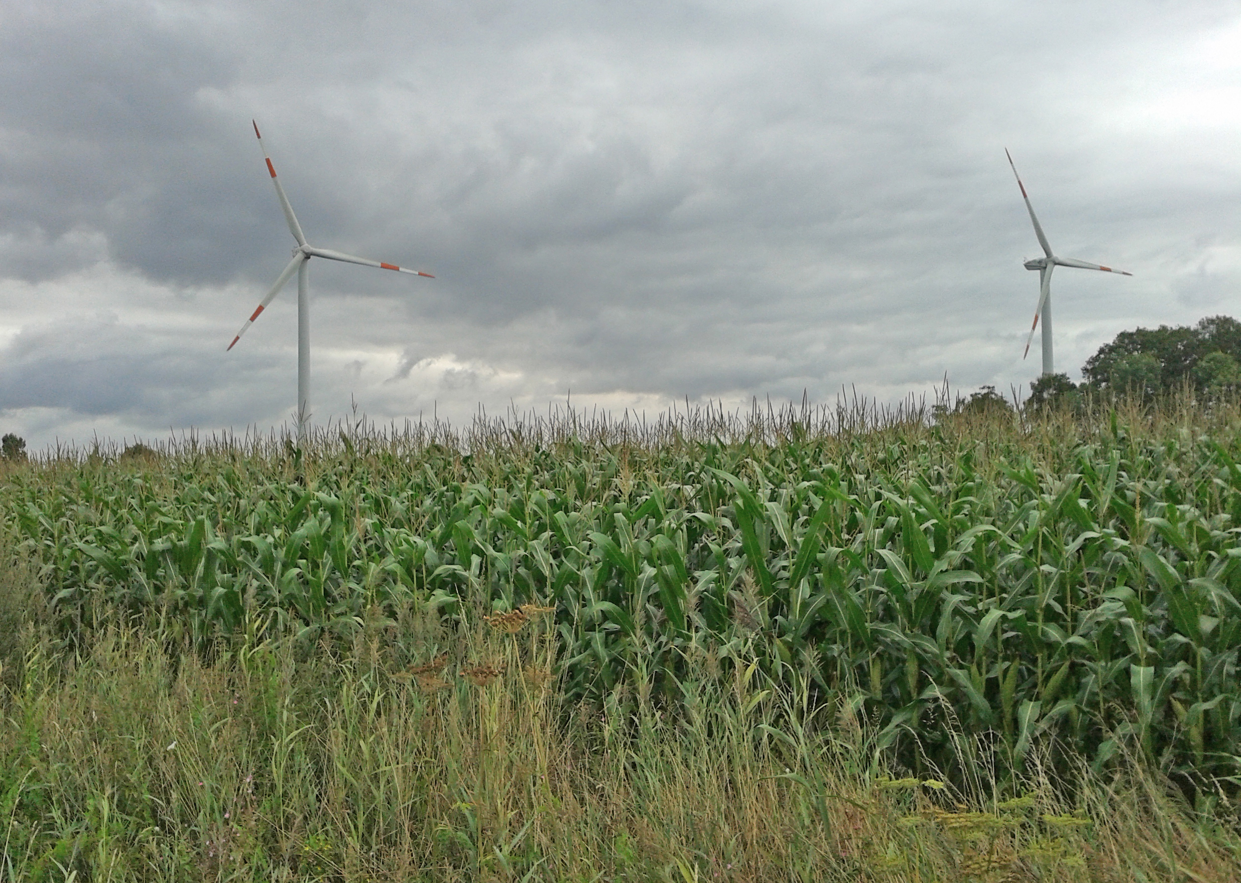 Ladbergen REpower MM82 wind turbines near the Münsterweg. Each of these MM82 wind turbines has a 80.0 m (262.5 ft) hub height and 82.0 m (269.0 ft) rotor diameter giving a total sweep of 5,281 m2 (56,844 sq ft) and an average power capacity of 2.050 kW. The power output is controlled by varying the pitch of the rotor blades which can operate at 8.5–17.1 rpm rotor speed.